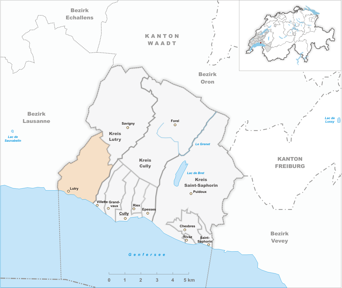 Municipality Lutry